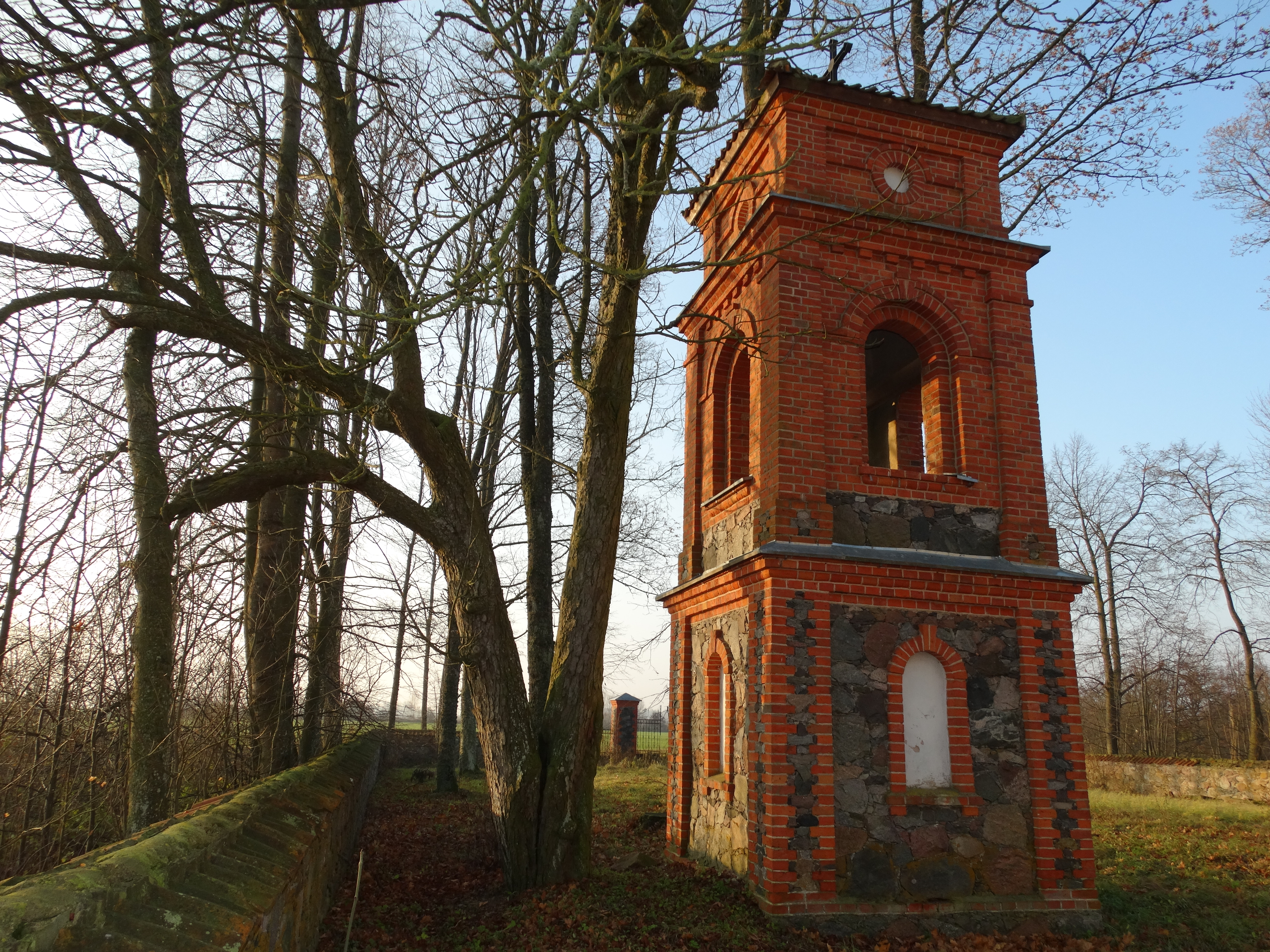 Chapel in Niurkoniai (by Lavėnai), Pasvalys district, Lithuania